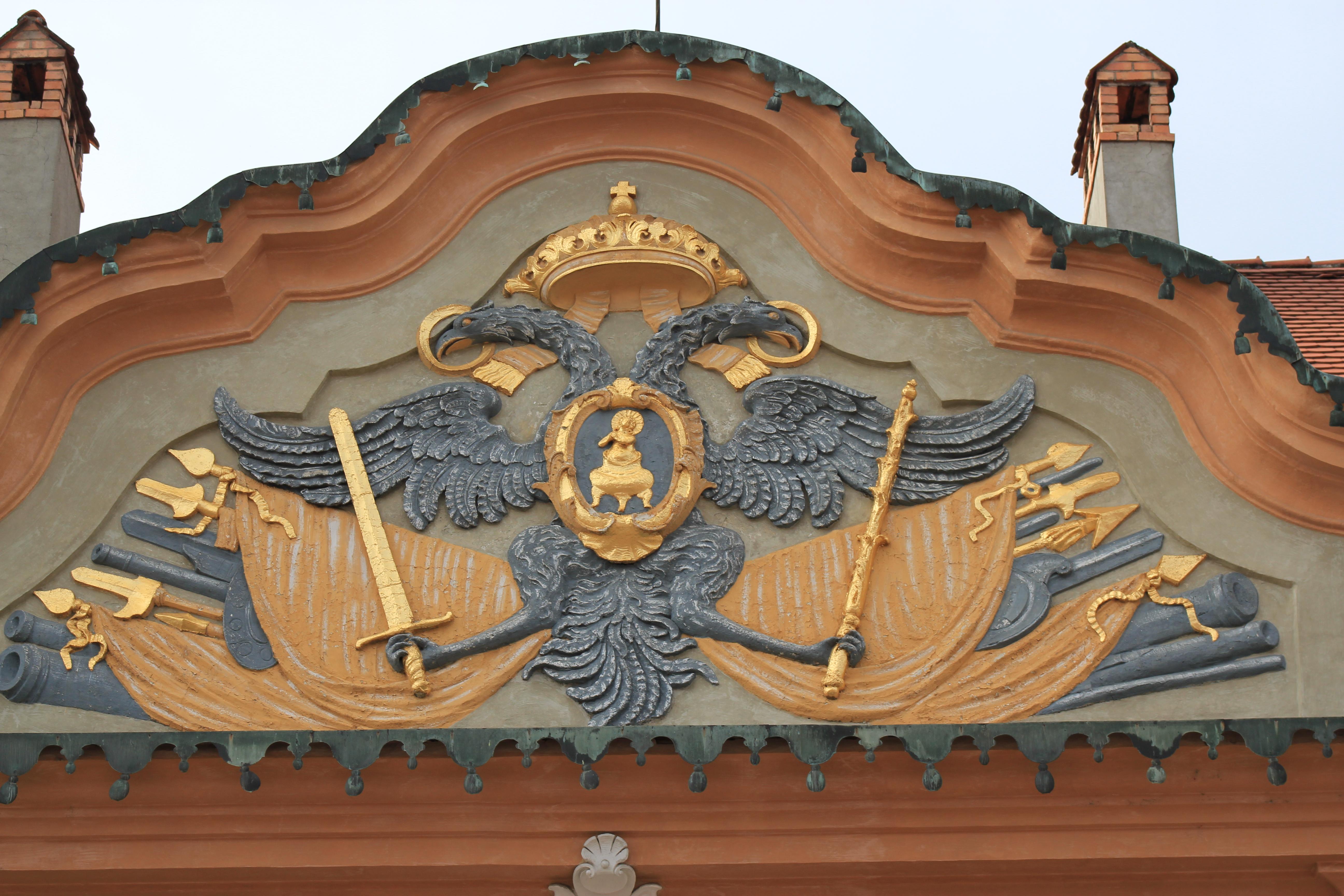 City hall in Sankt Veit an der Glan - detail